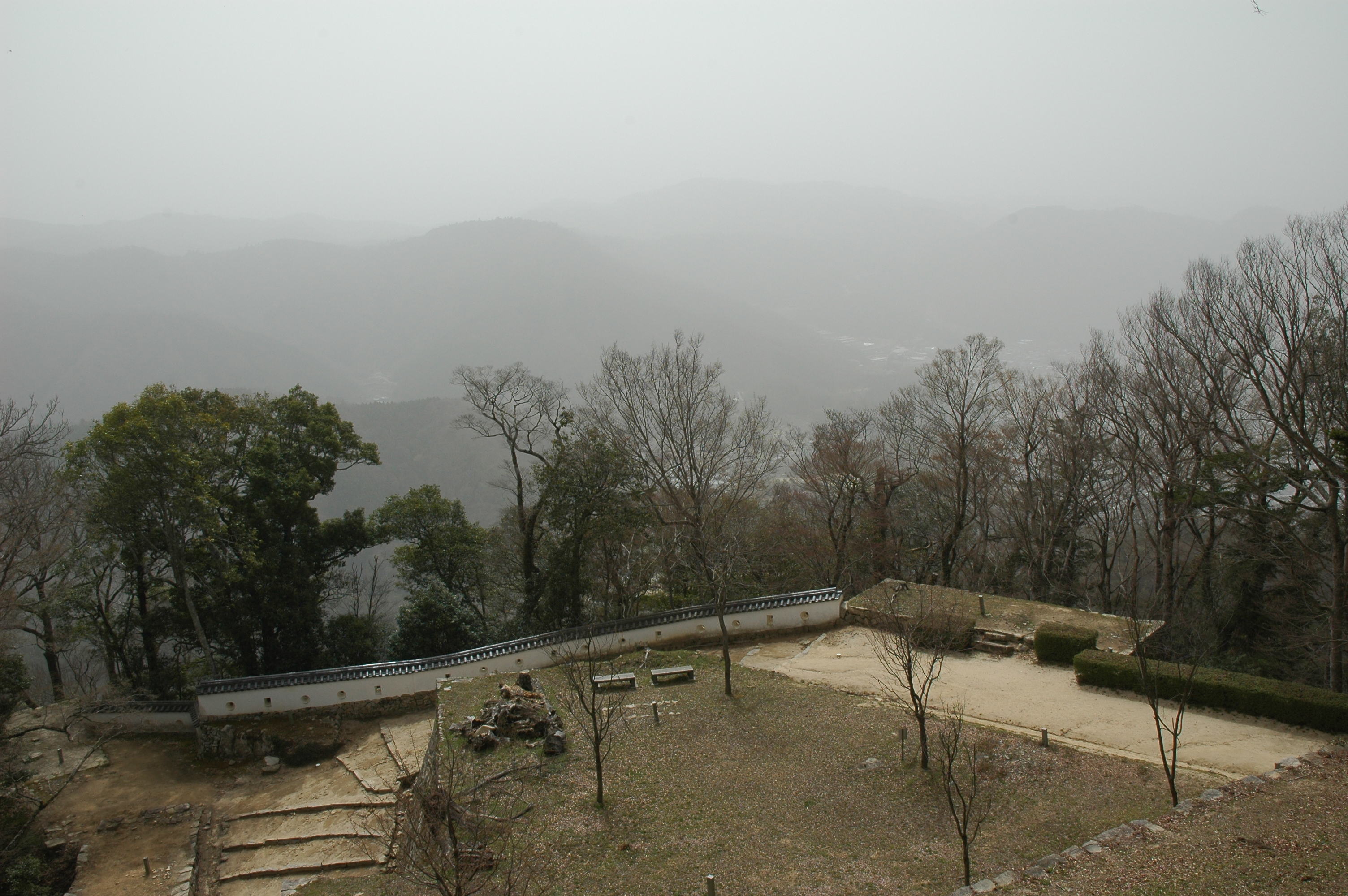 Bitchū Matsuyama castle San-no-maru and earthen wall(Japan's national important cultural property) and misted Takahashi town with bai(yellow sand)